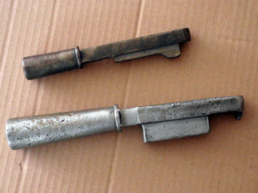 Various reverser handles for use with diesel-electric locomotives